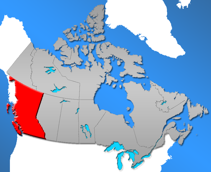 Province of British Columbia in Canada